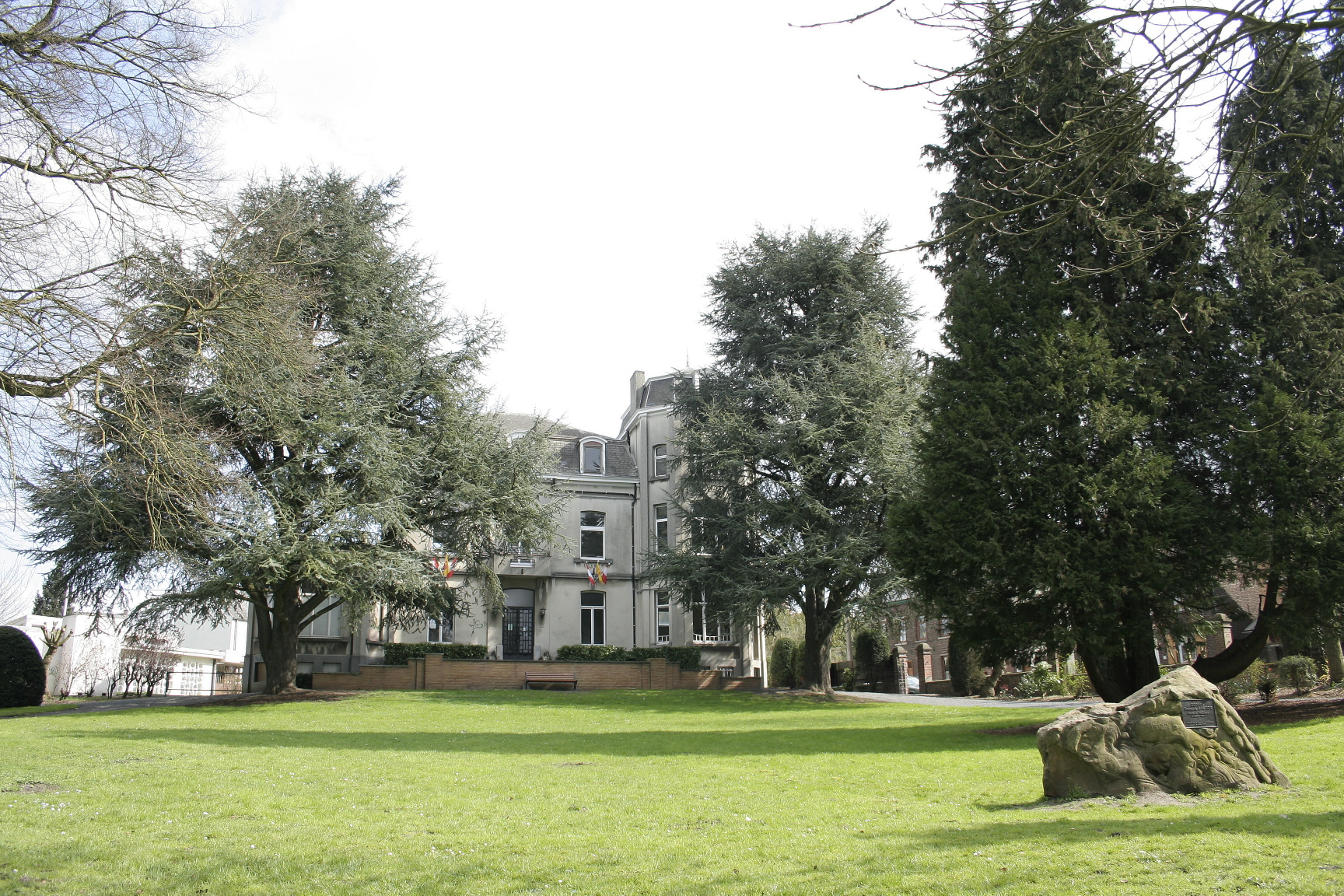 Obourg (Belgium), the ancient city hall and his park.